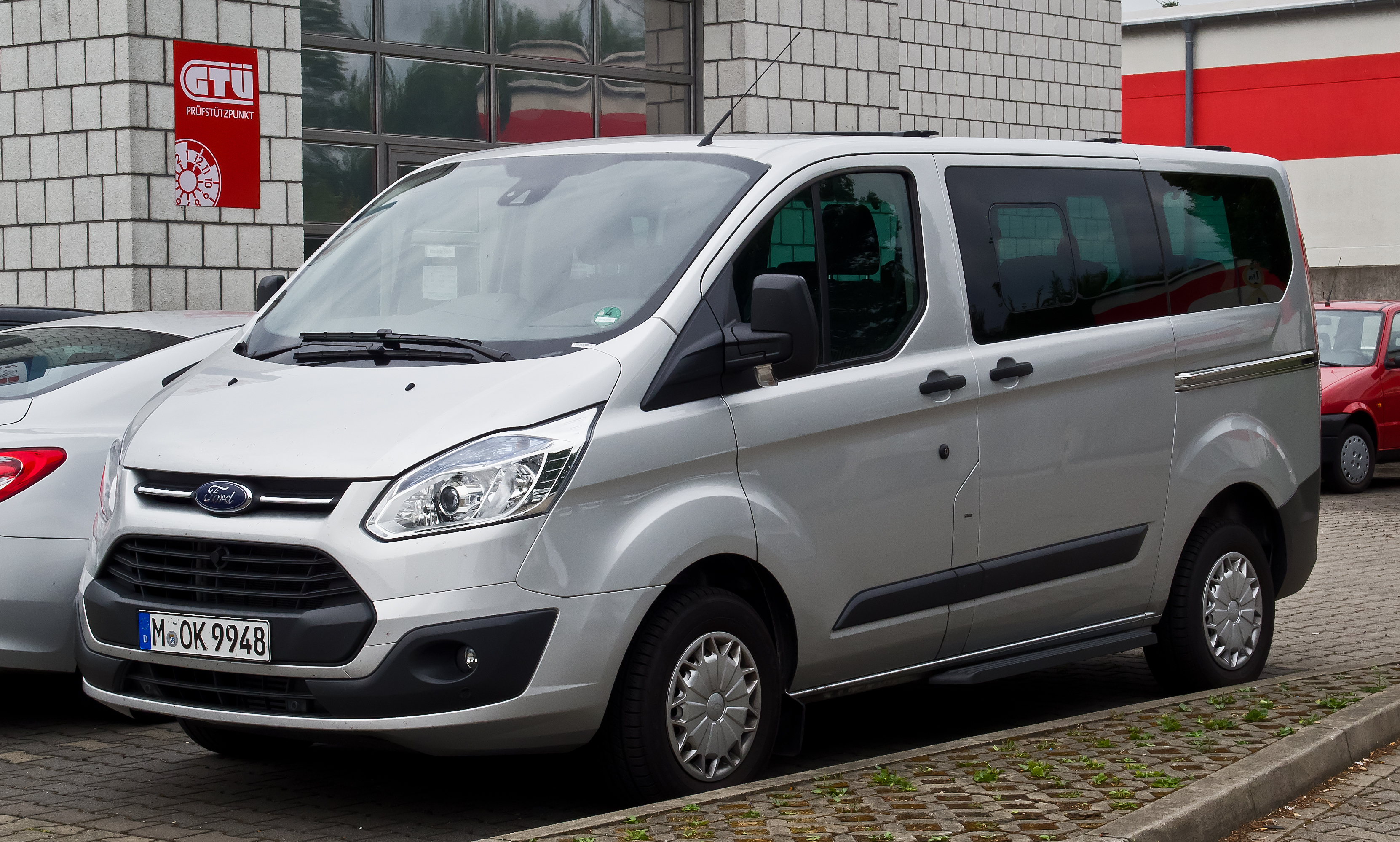 Ford Tourneo Custom Kombi 2.2 TDCi Trend (VII)